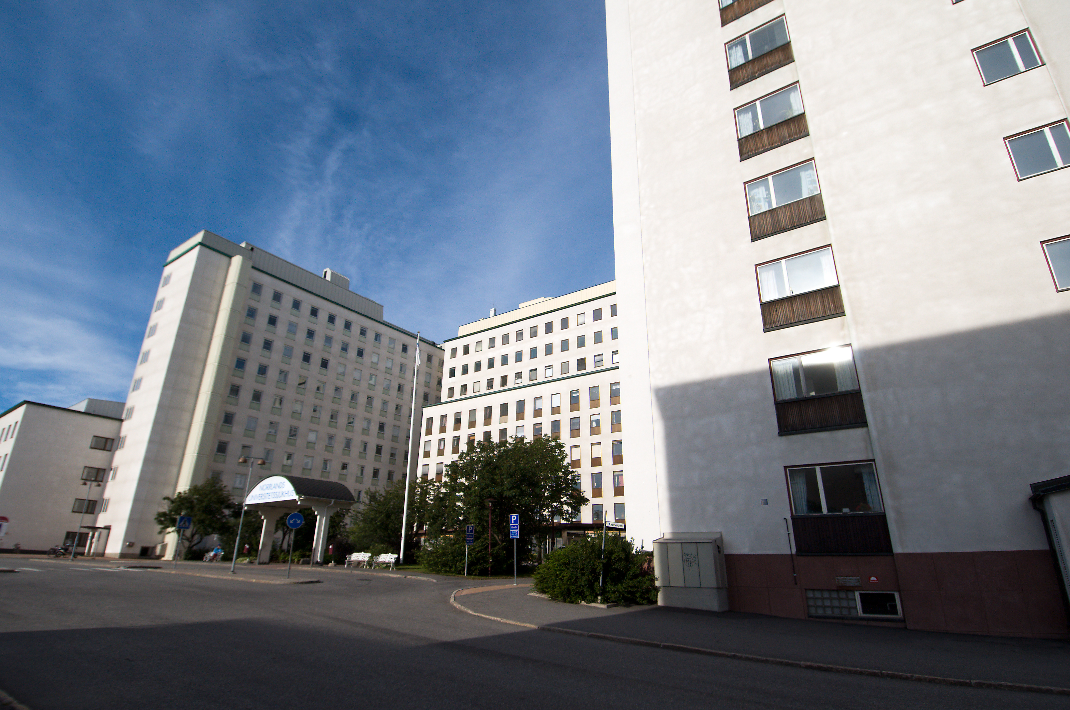 Entrence hall, Umeå university hospital - NUS.